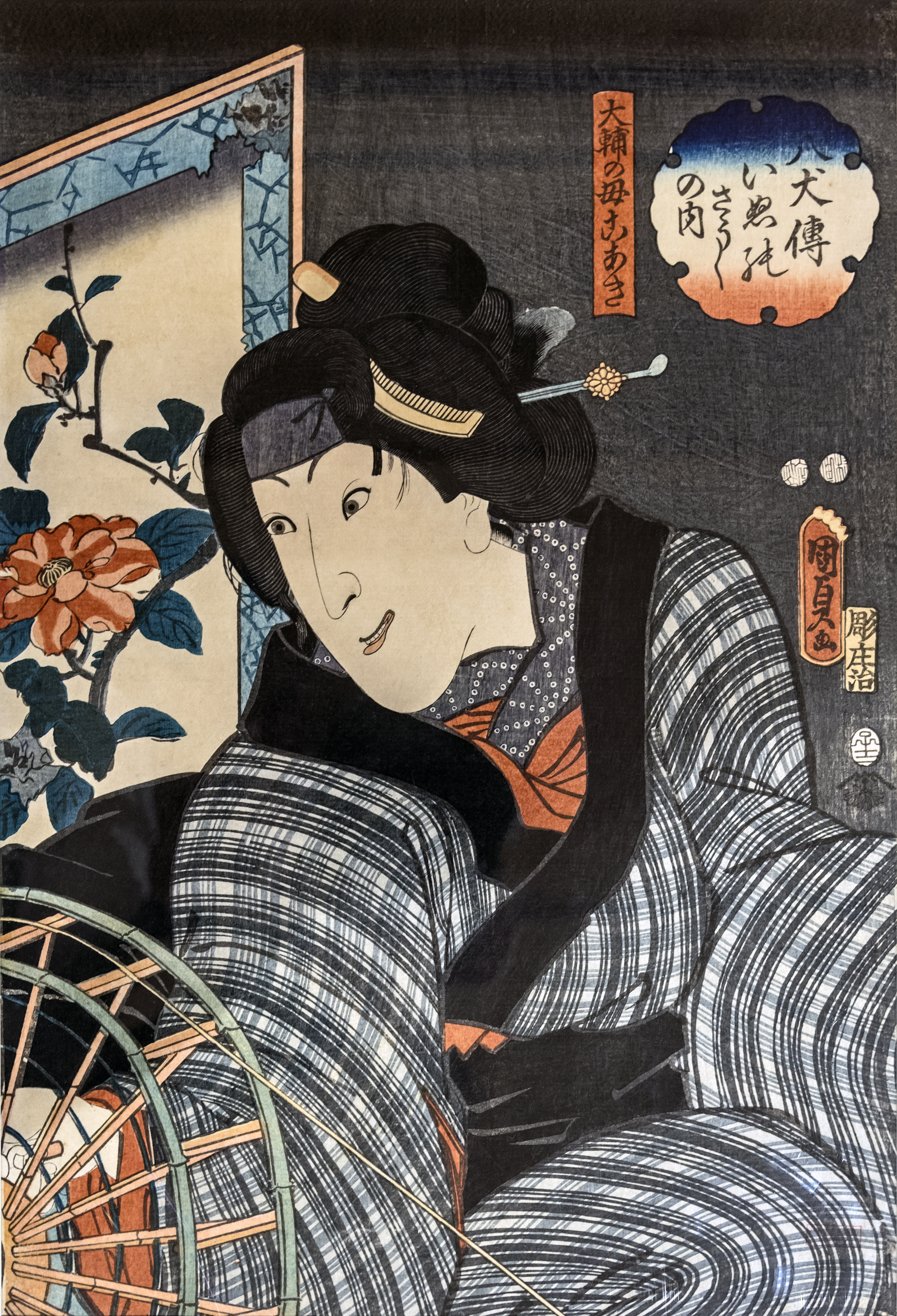 Onnagata. Actor Iwai Hanshirō V in the role of Koaki, Daisuke's mother. Print series "The Book of the Eight Dog Heroes (Hakkenden inu no sōshi no uchi - 八犬伝犬のさうしの内) on the Kabuki play the book of the legend of the eight dogs (Nansō Satomi Hakkenden).